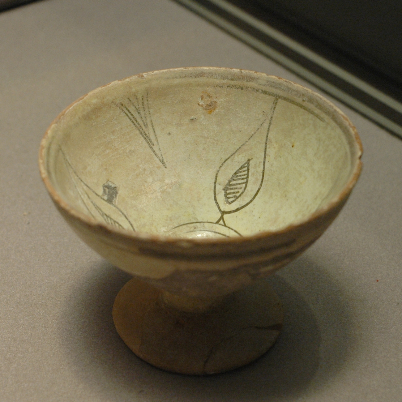 Cup, end of the 12th century–early 13th century, fine sgraffito ware. Found in the Myrina excavations.